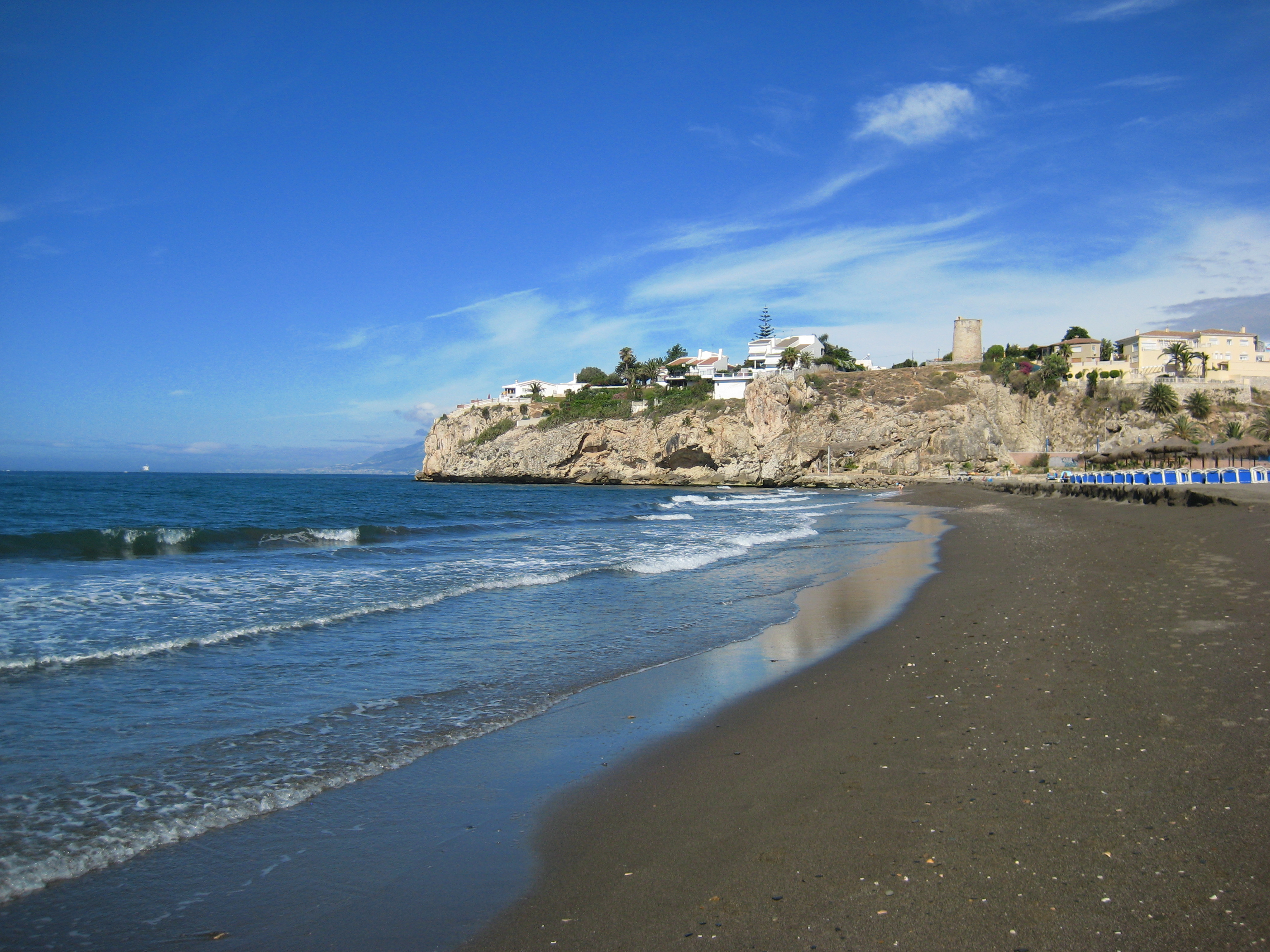 Beach in Rincón de la Victoria, Málaga, Spain